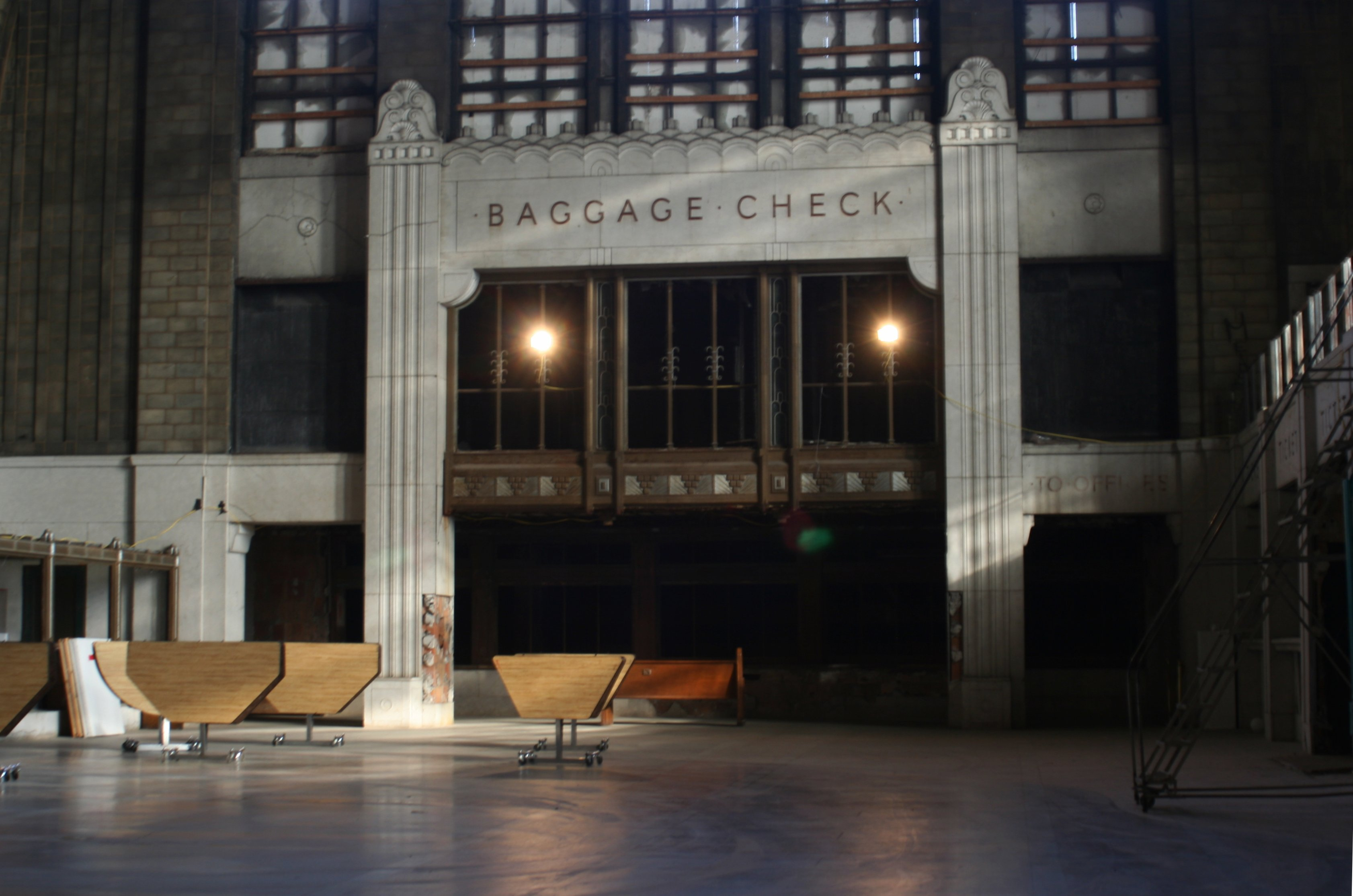 Buffalo Central Terminal, interior - entrance to baggage check area, off of the main concourse.